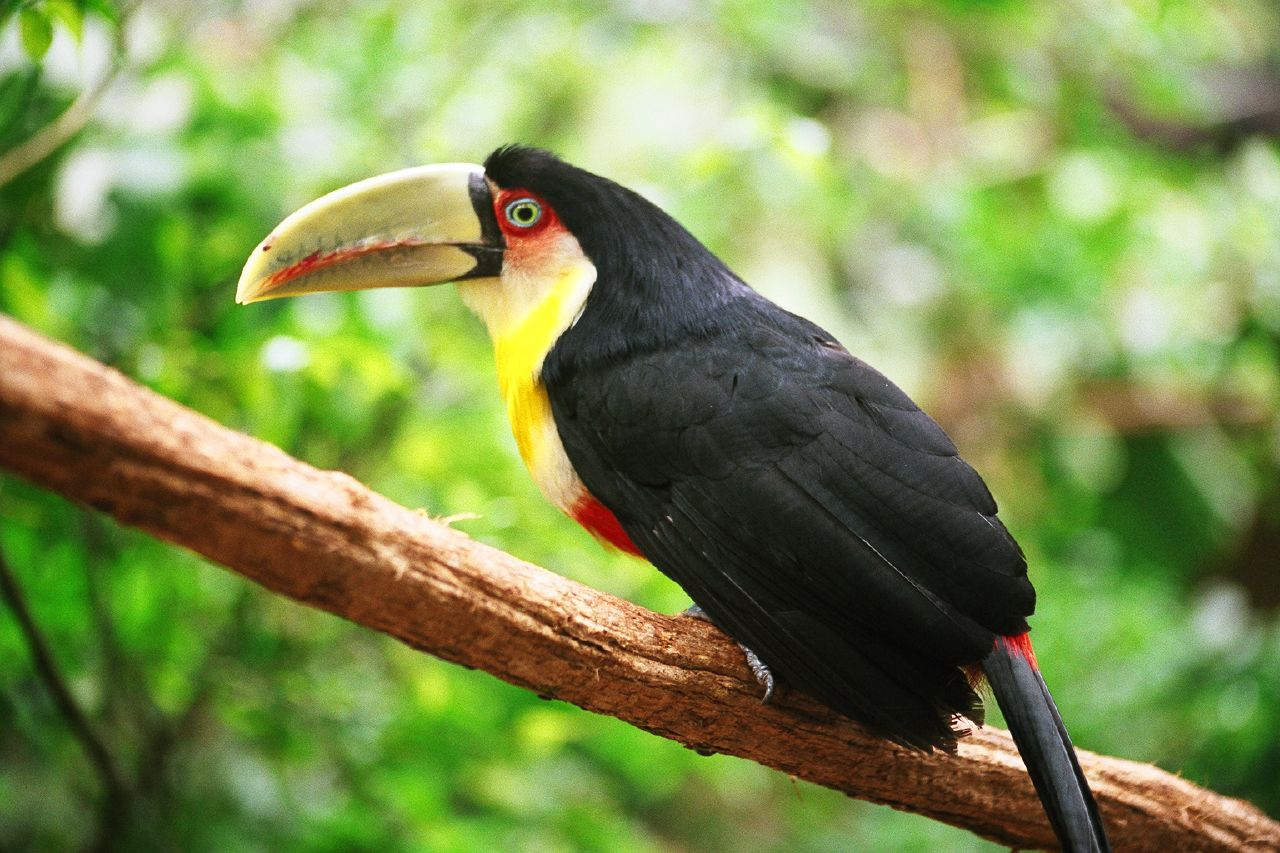 Red-breasted Toucan, also known as the Green-billed Toucan, in a Parque das Aves, Brazil.